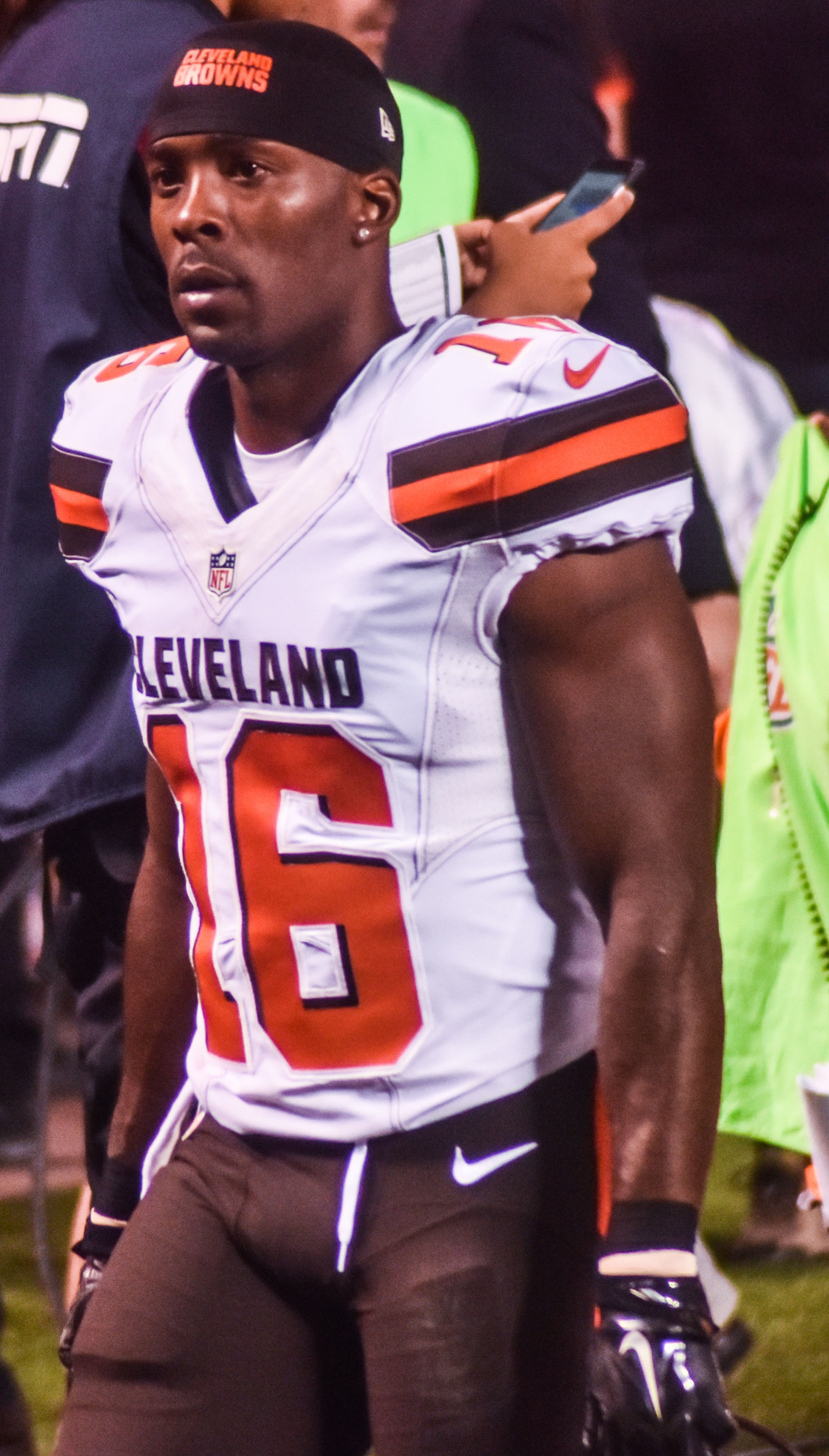 Browns vs Bills 2015